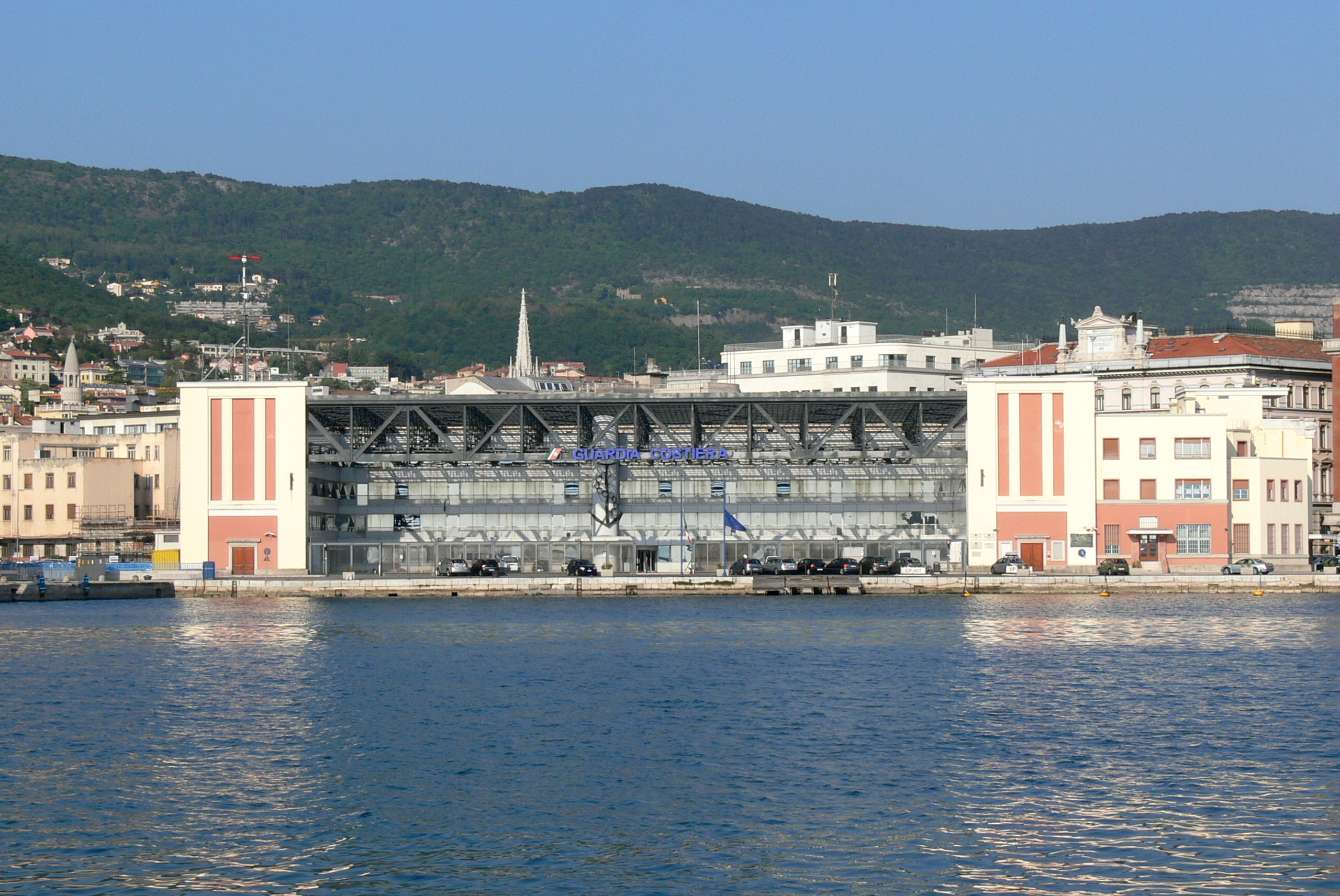 Trieste ( Italy ). View from Molo Audace - Coast guard building.